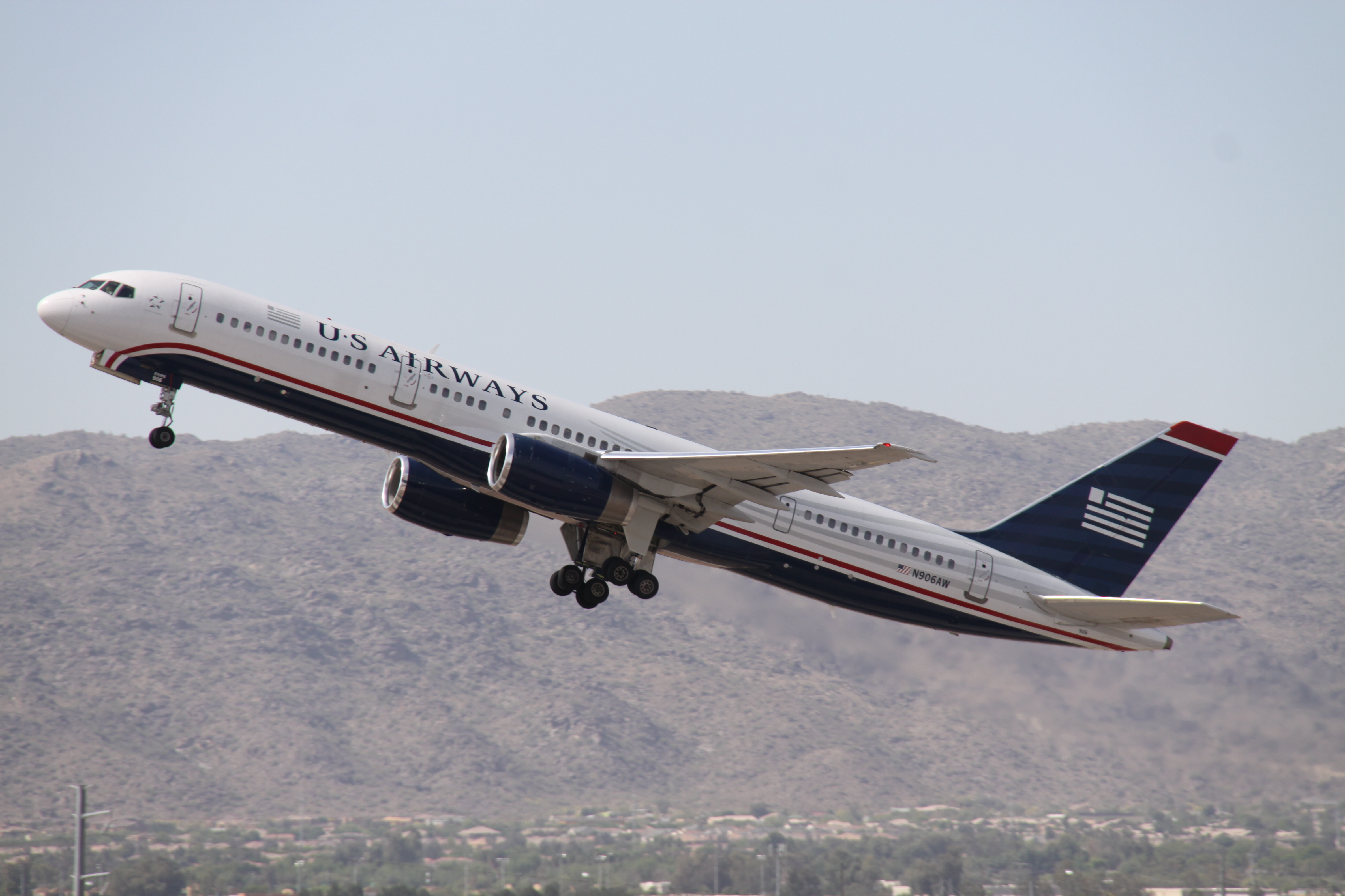 At Phoenix Sky Harbor International